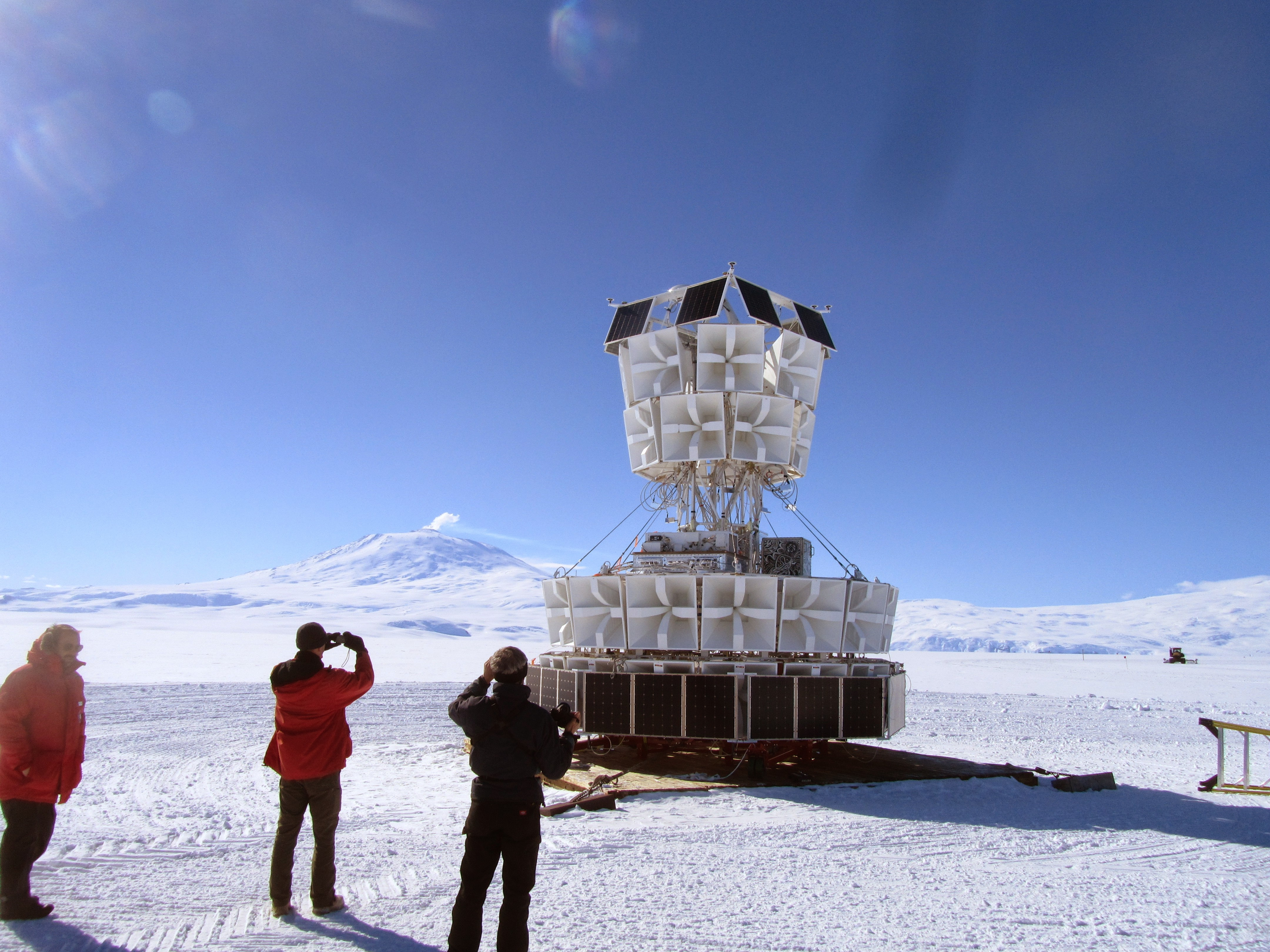 The ANITA 3 experiment in Antarctica, prior to being launched on a balloon.